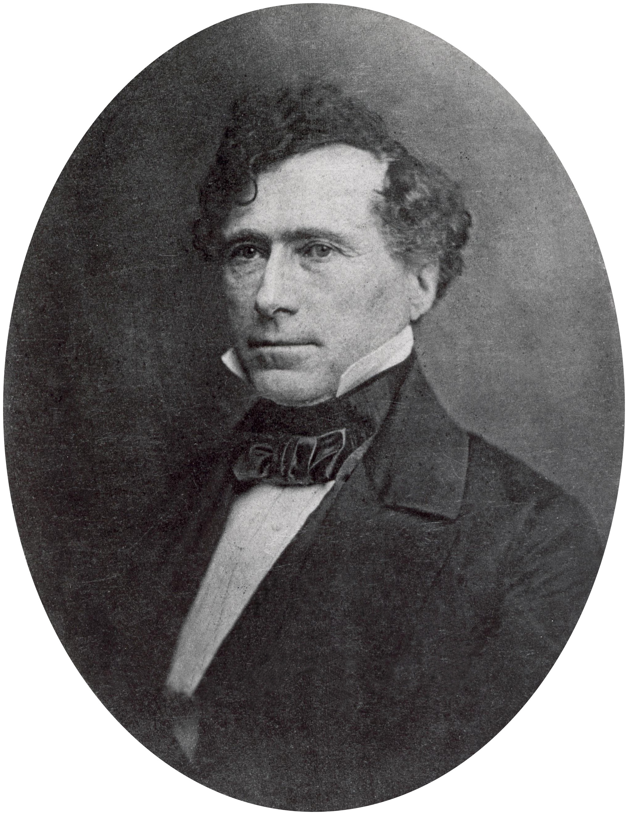 From a daguerreotype of Franklin Pierce